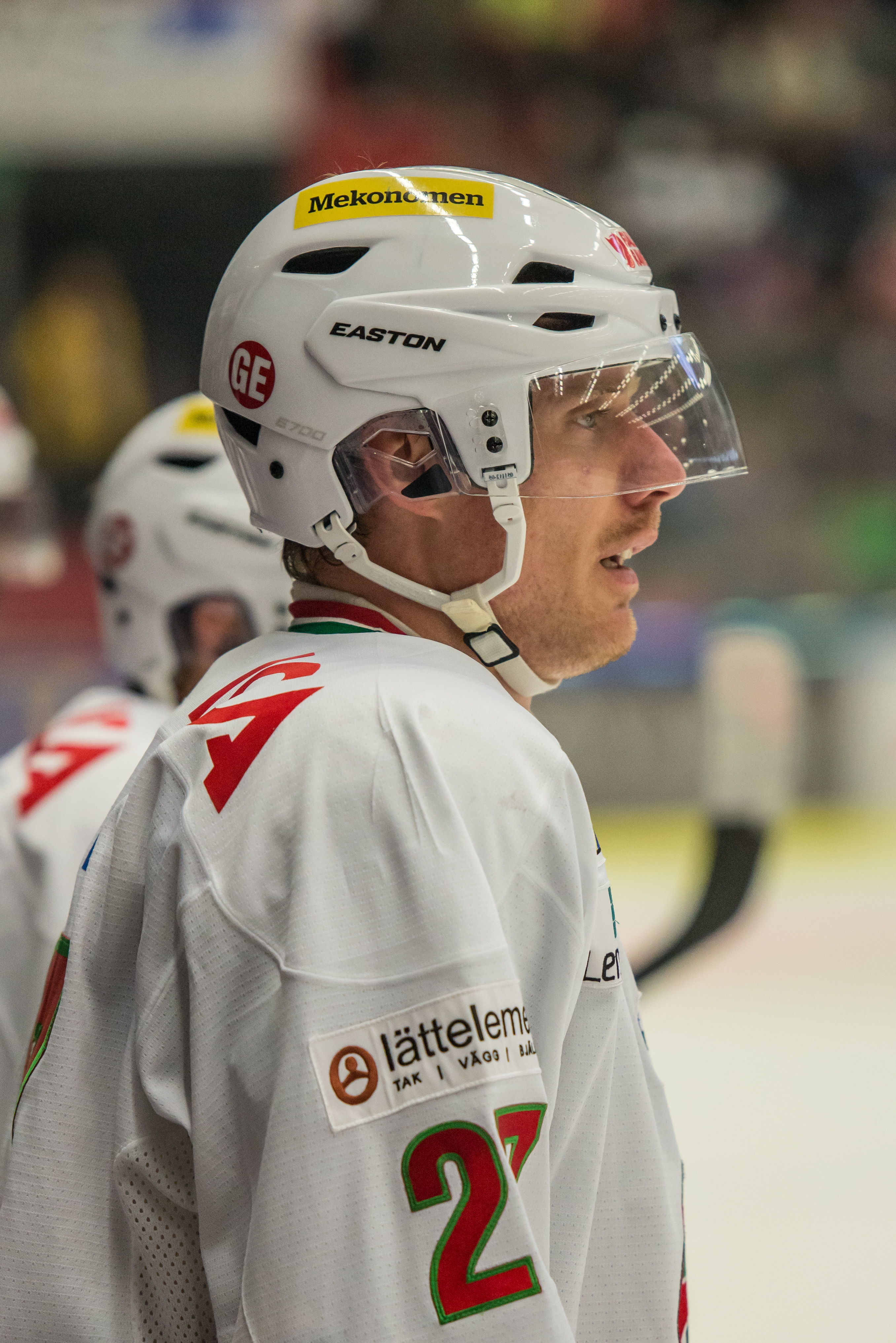 Peter Öberg playing for MODO Hockey in SHL (Swedish Hockey League – Sweden's highest league) vs Örebro HK in Behrn Arena 2013-10-05.